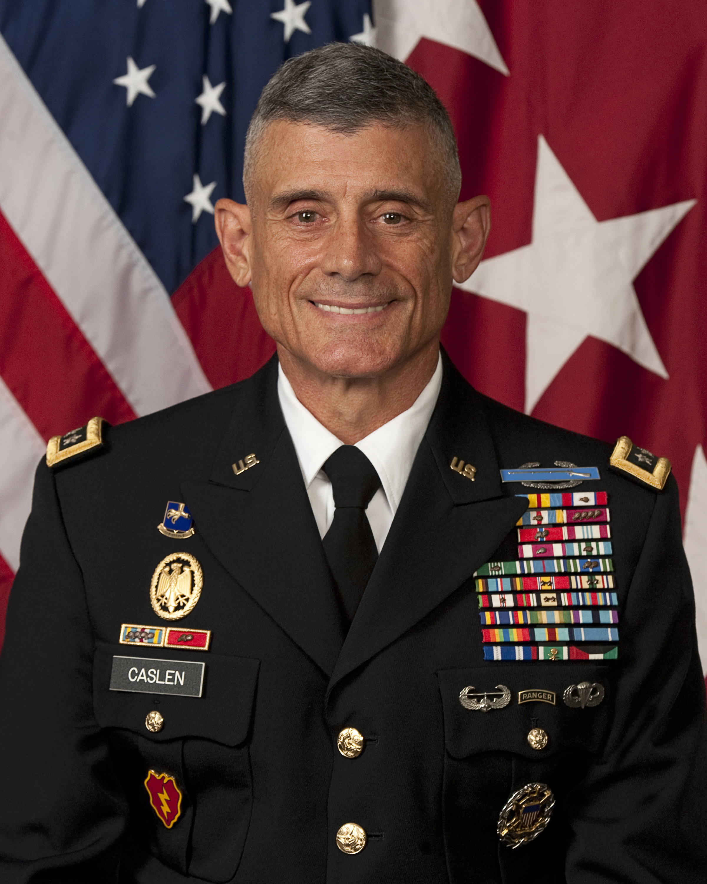 Official Department of the Army photo of Lieutenant General Robert L. Caslen Jr.